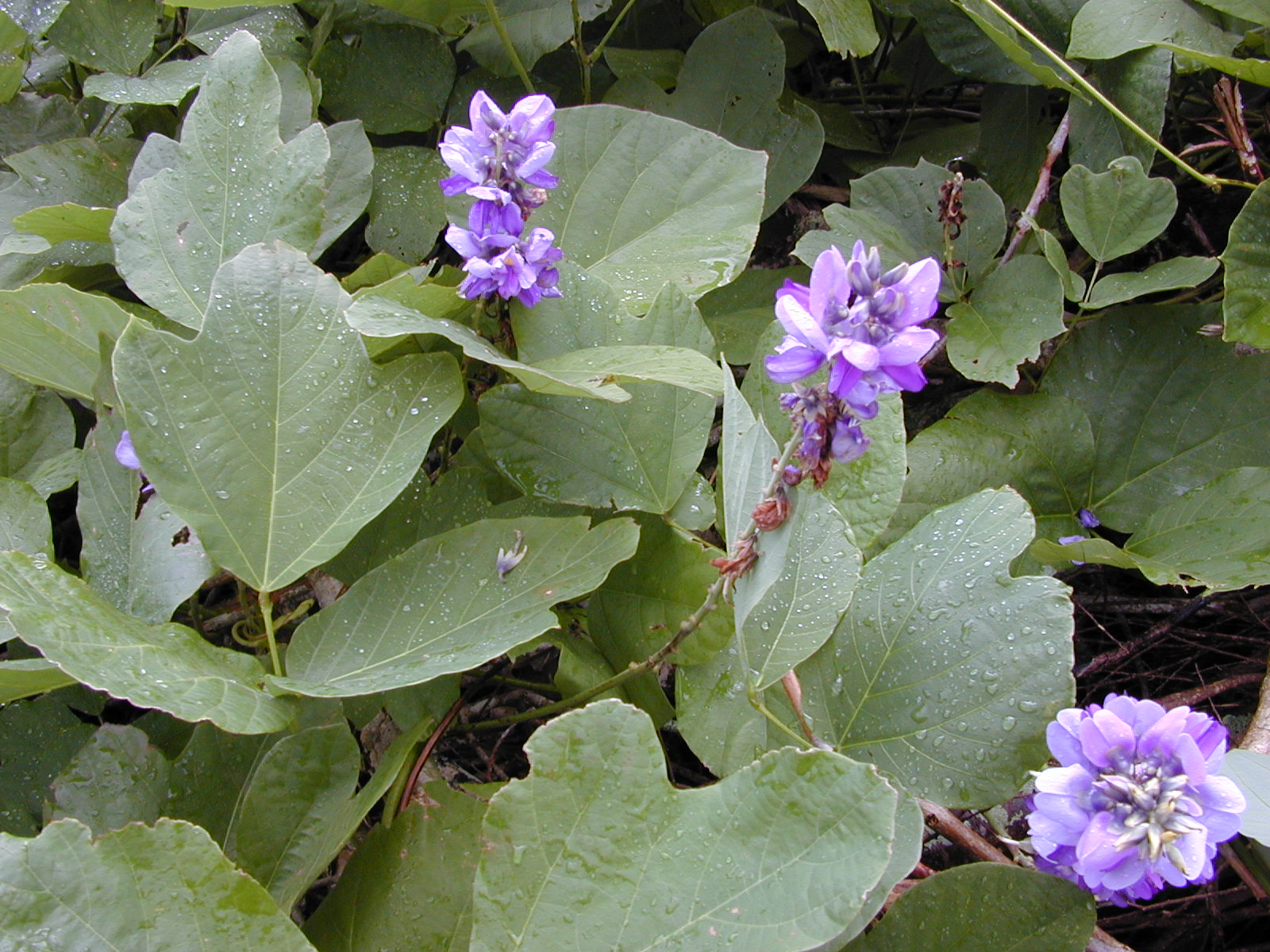 Pueraria montana var. lobata (leaves and flowers). Location: Maui, Honomanu Hana Hwy